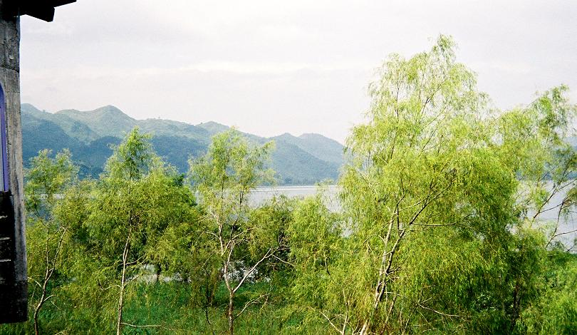 Picture of Yojoa Lake.This file has been released into the public domain by Juan Irias, photographer of the image in Yojoa, Honduras, 11-01-2005.